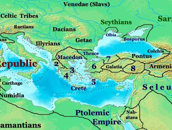 Location of the Getae tribes, circa 200 BC thumb|300px|left|Eastern Hemisphere in 200 BC. This image is a zoomed-in version of Eastern Hemisphere in 200 BC. Source URL: Image was created by me (Thomas Lessman) based on my map of the Eastern Hemisphere in 200 BC. Image is free for educational use. I would appreciate a mention if this image is used. If anyone is interested in helping further this work, please contact Thomas Lessman at .